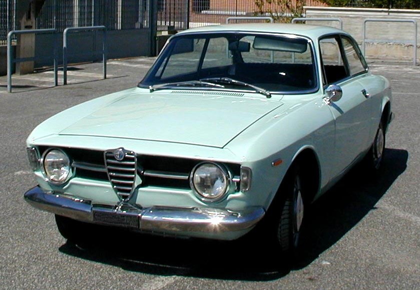 Alfa Romeo Giulia GT 1300 Junior, 1968 model.